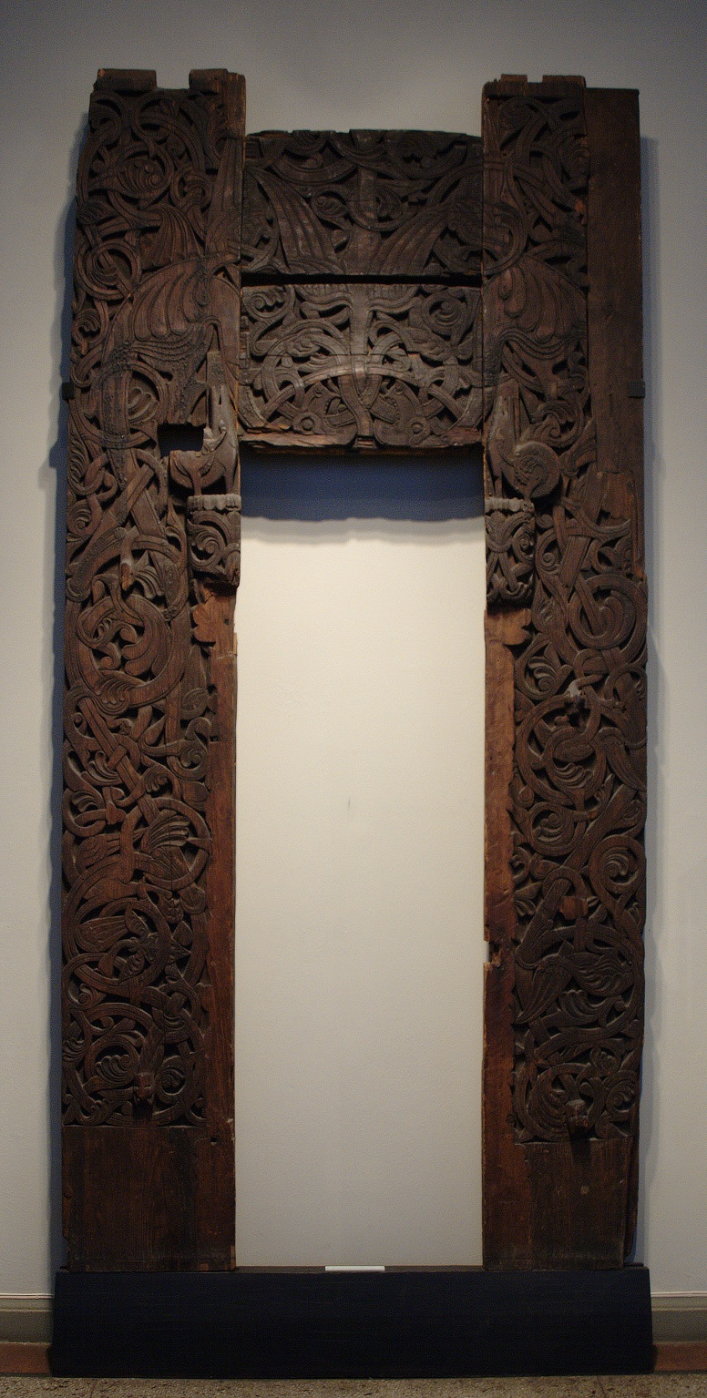 The portal from Atrå stave church